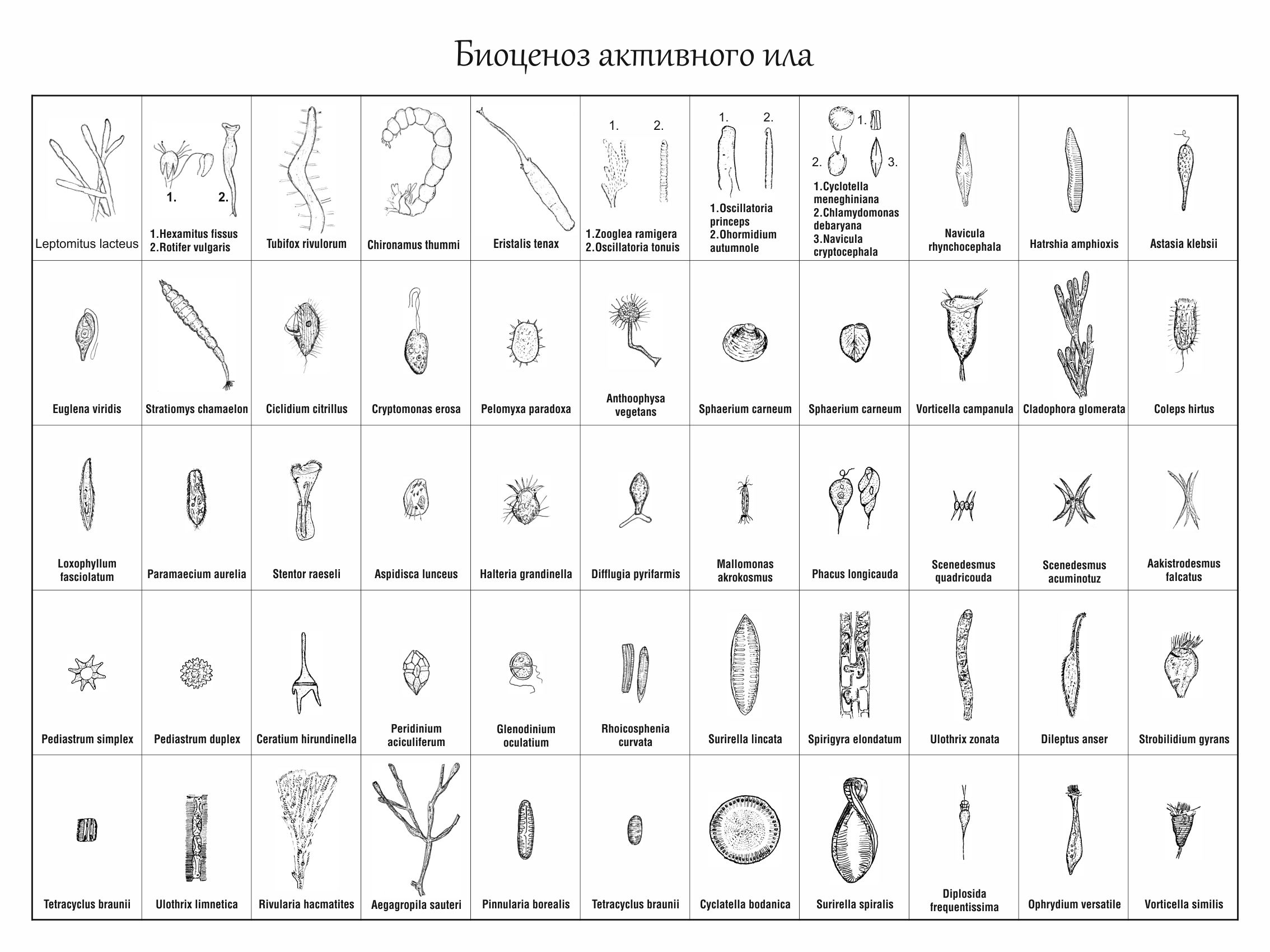 Biocenosis of activated sludge (Krivbassvodokanal)